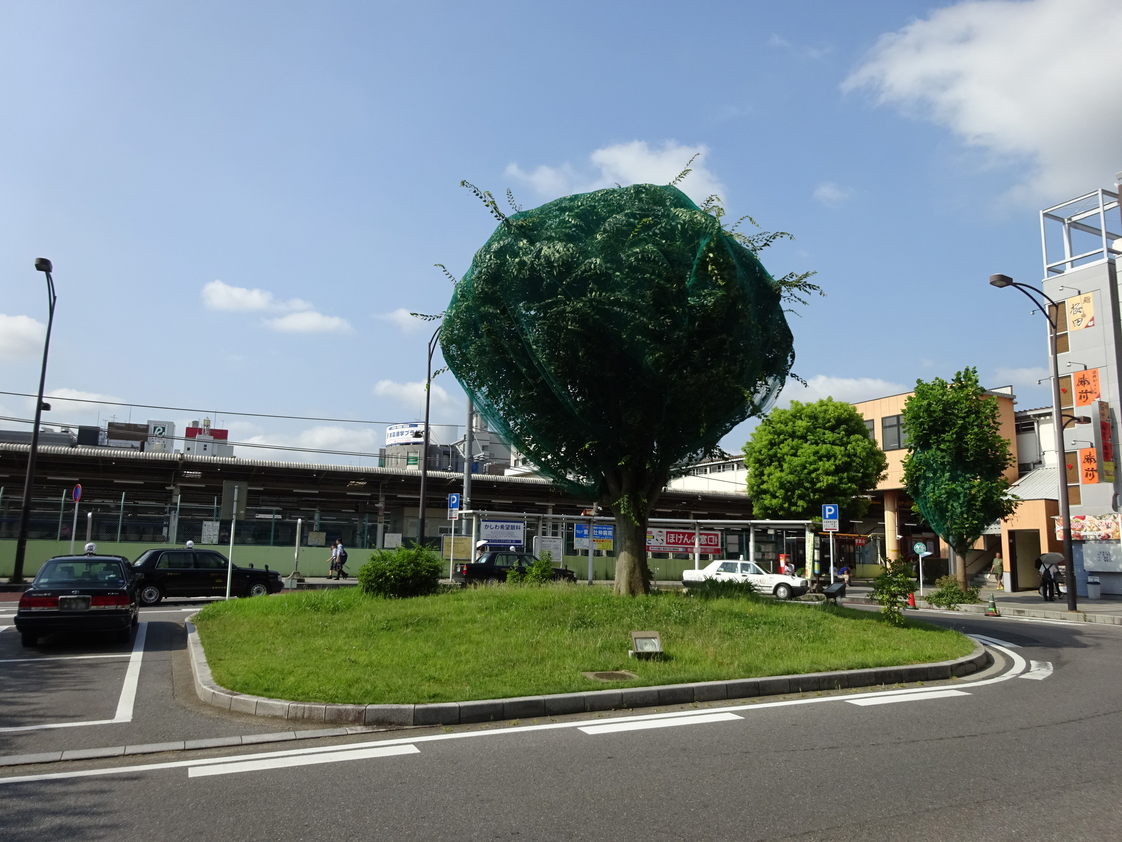 North entrance of Abiko Station (Chiba)